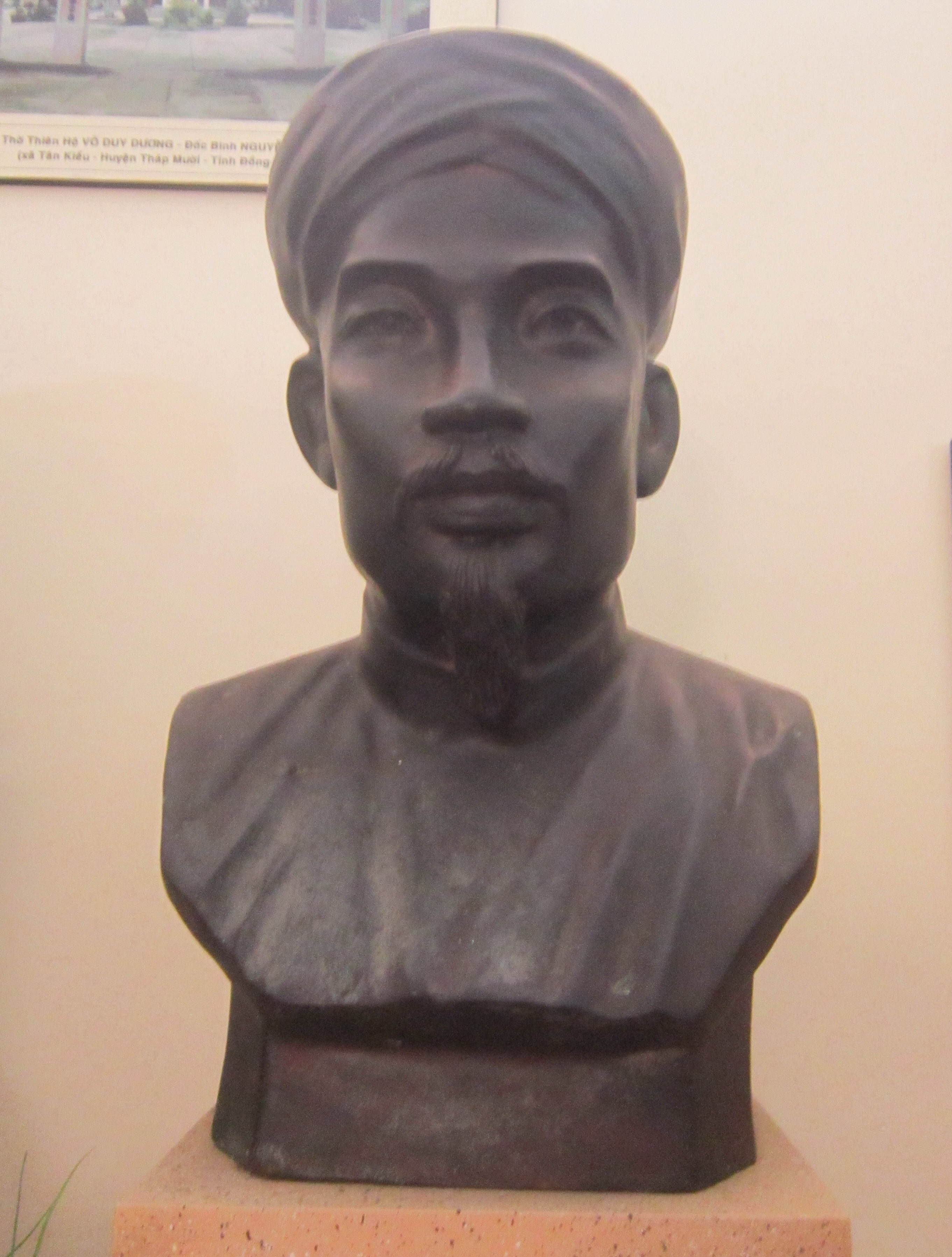 Tượng ông Đốc binh Nguyễn Tấn Kiều (? - 1886) trong Bảo tàng tỉnh Đồng Tháp (Việt Nam).